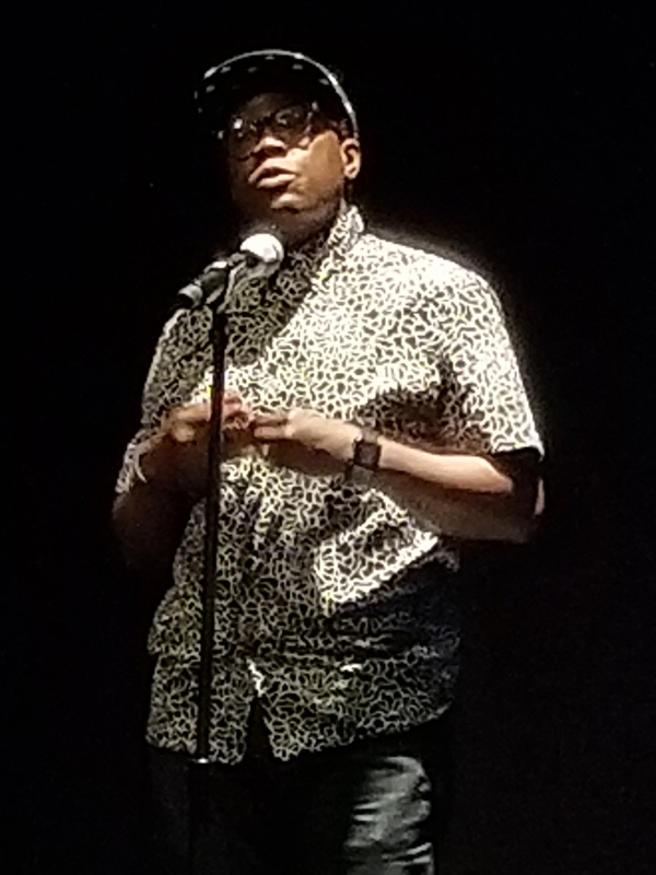 Cheryl Dunye presenting The Watermelon Woman at SFMOMA in San Francisco, California, United States